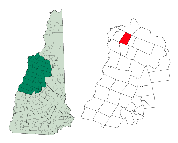 Map of a municipality in Belknap County, New Hampshire